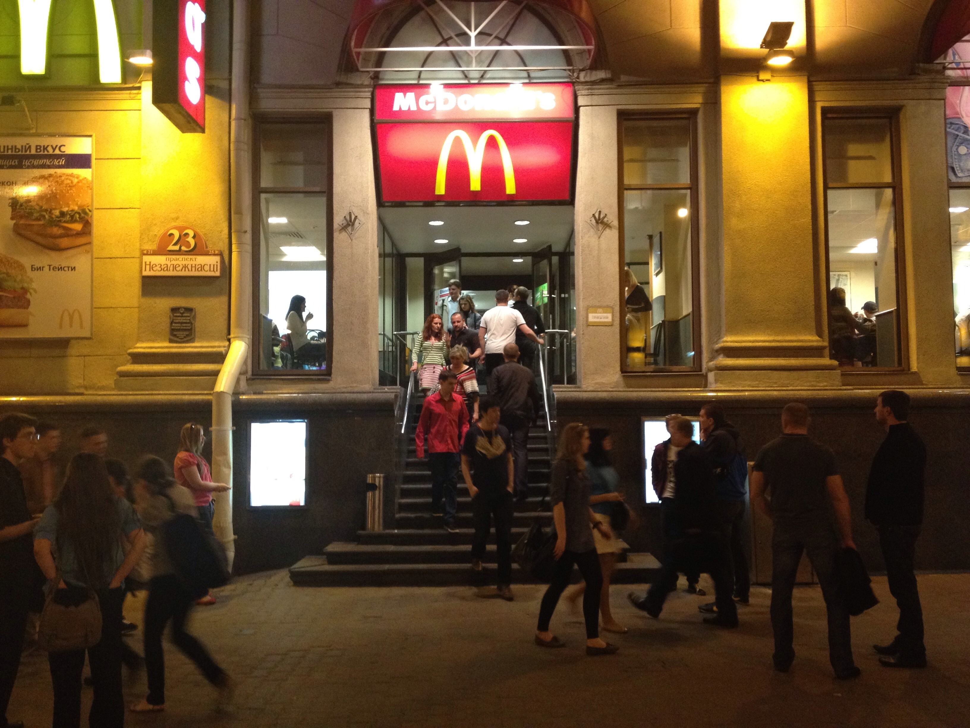 A McDonald's restaurant in Minsk.